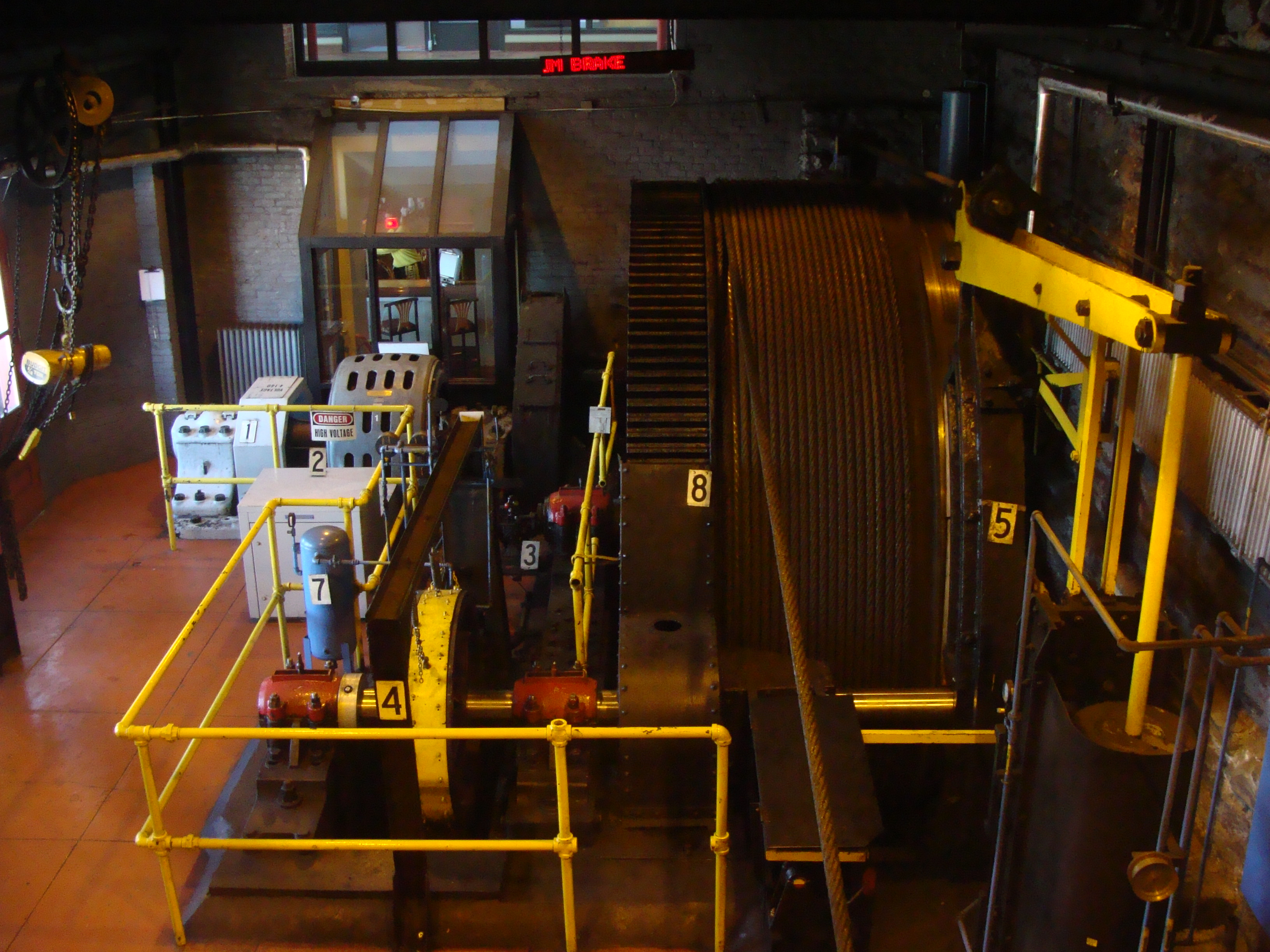 The mechanical room of the Johnstown Inclined Plane in Johnstown, Pennsylvania. Numbered signs indicate machinery: 400-horsepower (298 kW), 4,160-volt induction motor High voltage surge protector Overspeed governor Main service air brake Emergency drum brake Air compressors (not pictured) Reserve air reservoir Main hoist cable drum